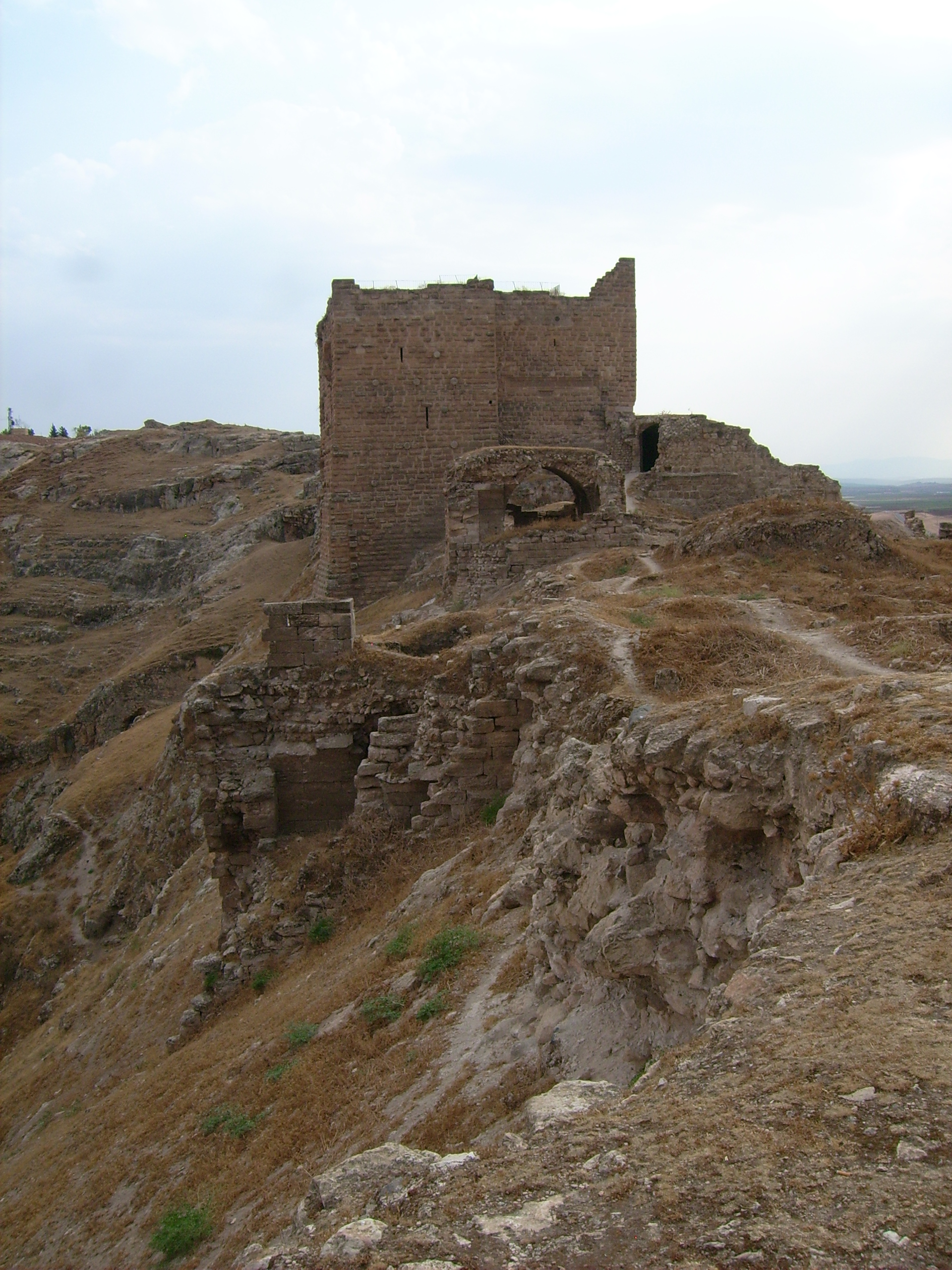 The palas-like tower of the citadel of Shayzar, located in the South and seen from the eastern side of the middle-section.